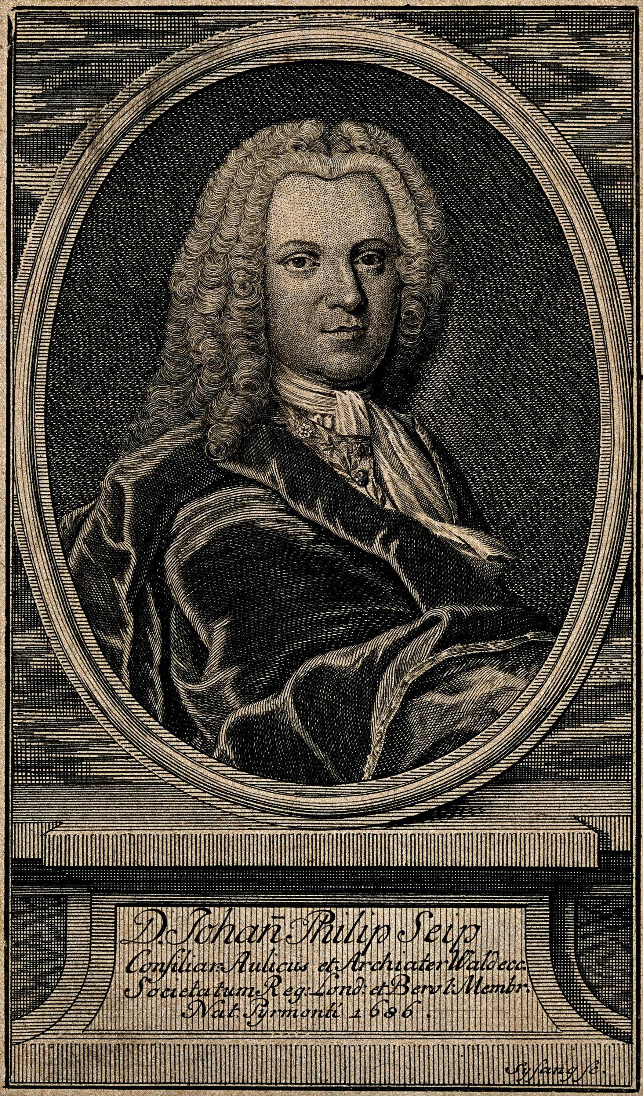 Johann Philipp Seip. Line engraving by J. C. Sysang.